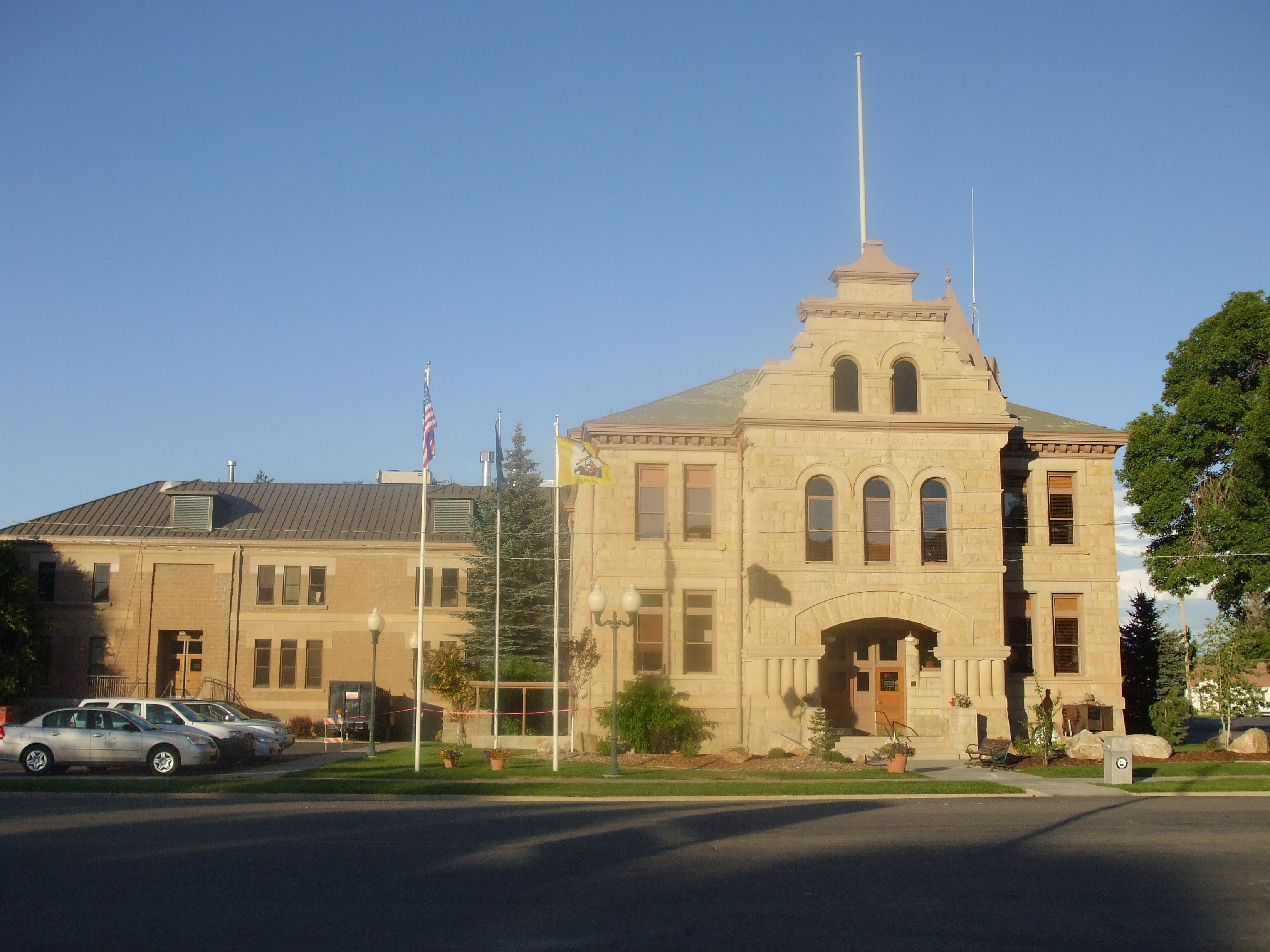 Summit County Courthouse, a historic building in Coalville, Utah, United States.